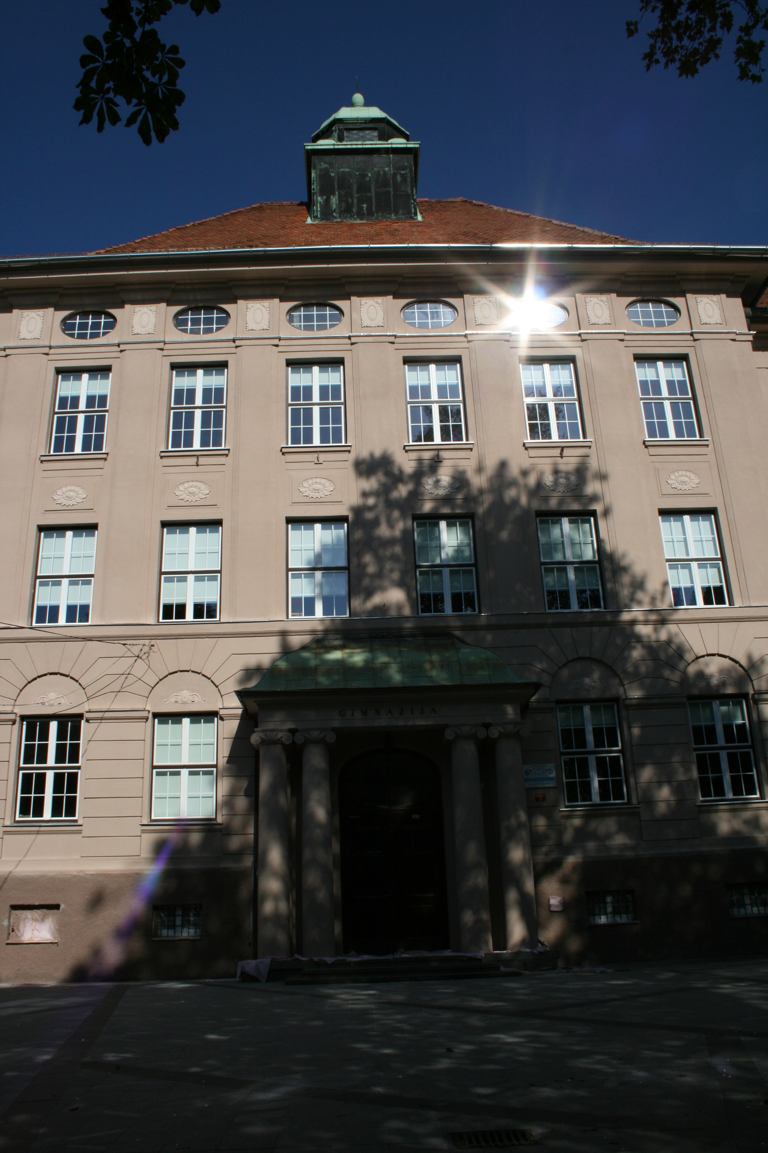 Ist Grammar School Celje.